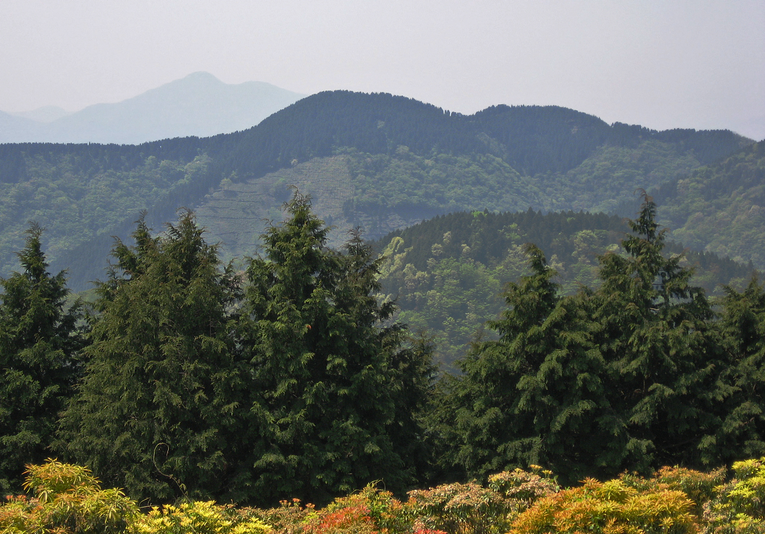 Mt.Takamatsu seen from Mt.Shidango at Mts.Tanzawa, Matsuda, Kanagawa, Japan.